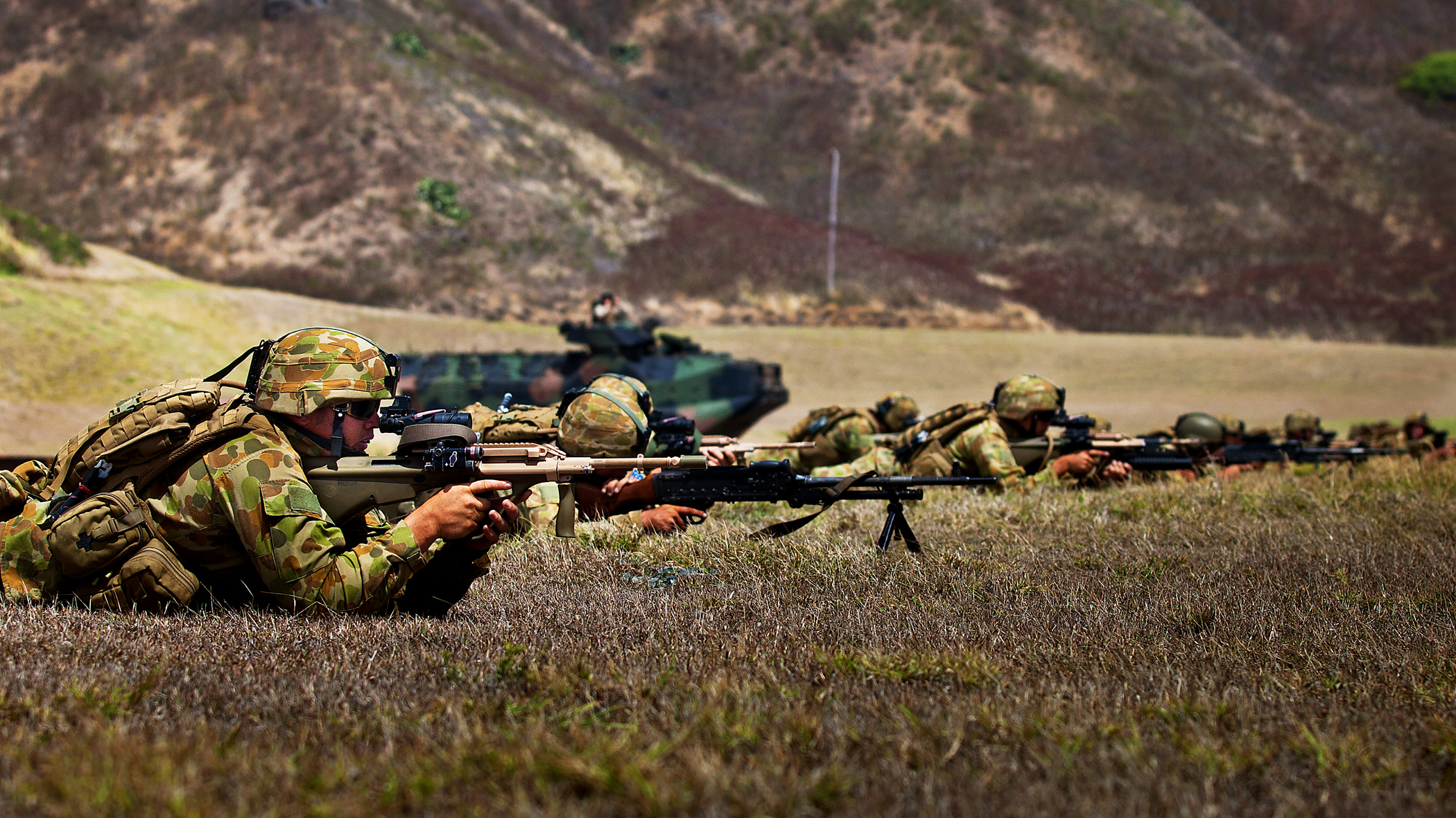 Australian army soldiers from Alpha Company, 1st Royal Australian Regiment, conduct a raid from Amphibious Assault Vehicles driven by U.S. Marines from Combat Assault Company, 3rd Marine Regiment, as part of Rim of the Pacific 2012, July 9. The soldiers and Marines are part of 2,200 personnel from nine nations who comprise Special-Purpose Marine Air-Ground Task Force 3, Combined Force Land Component Command. The CFLCC is conducting amphibious and land-based operations in order to enhance multinational and joint interoperability. Twenty-two nations, more than 40 ships and submarines, more than 200 aircraft and 25,000 personnel are participating in RIMPAC exercise from June 29 to Aug. 3, in and around the Hawaiian Islands. The world's largest international maritime exercise, RIMPAC provides a unique training opportunity that helps participants foster and sustain the cooperative relationships that are critical to ensuring the safety of sea lanes and security on the world's oceans. RIMPAC 2012 is the 23rd exercise in the series that began in 1971. (U.S. Marine Corps Photo by Cpl. Tyler L. Main/Released)